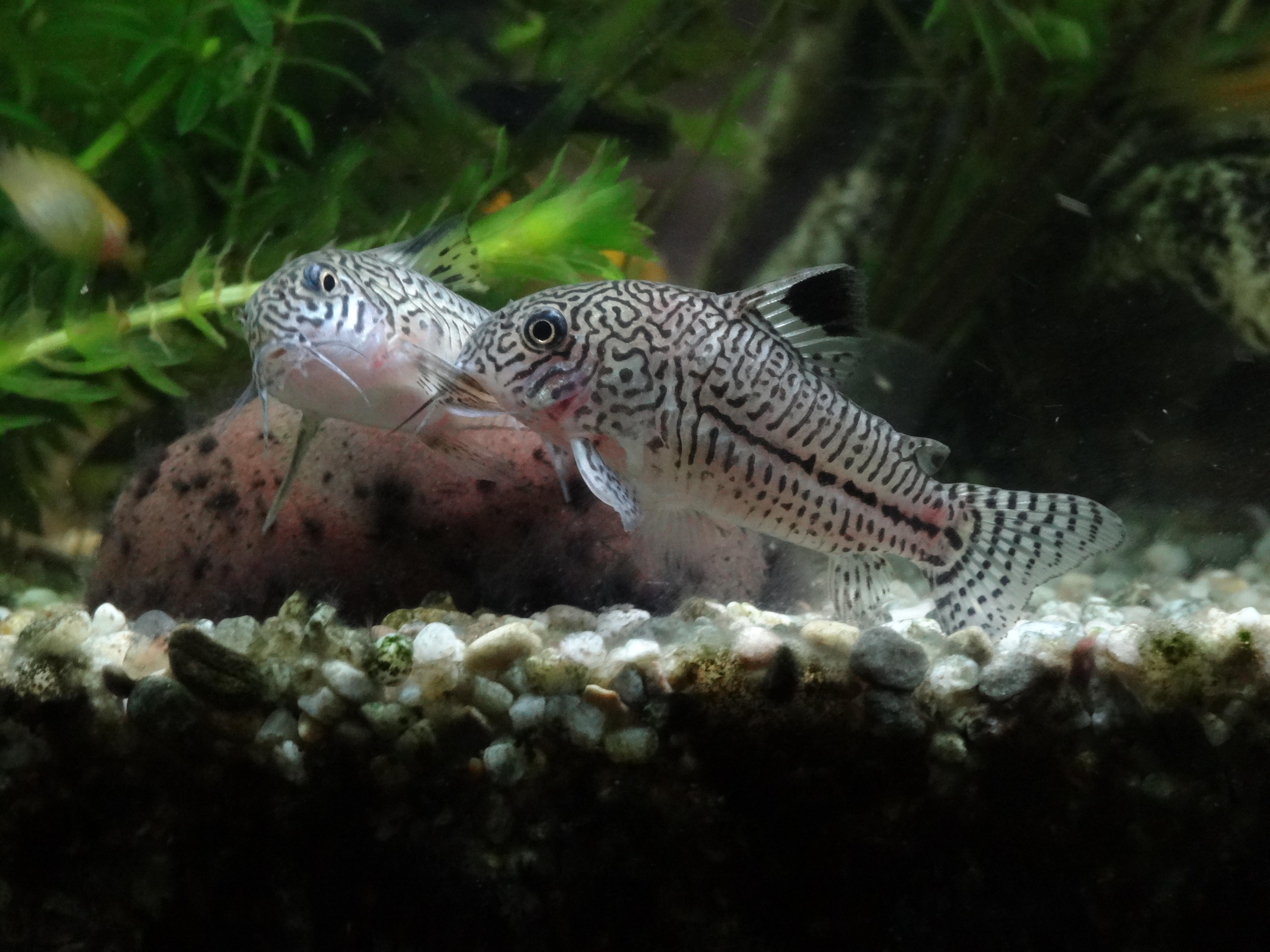 corydoras julii spawning